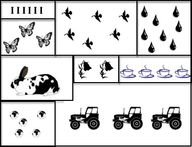 groups of objects, rabbit, butterfly, birds, flowers etc